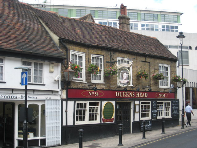 The Queen's Head pub Uxbridge Dating from 1546, this is reputed to be the oldest pub in Uxbridge, a town which had a large number of coaching inns, being on the route from London to Oxford.